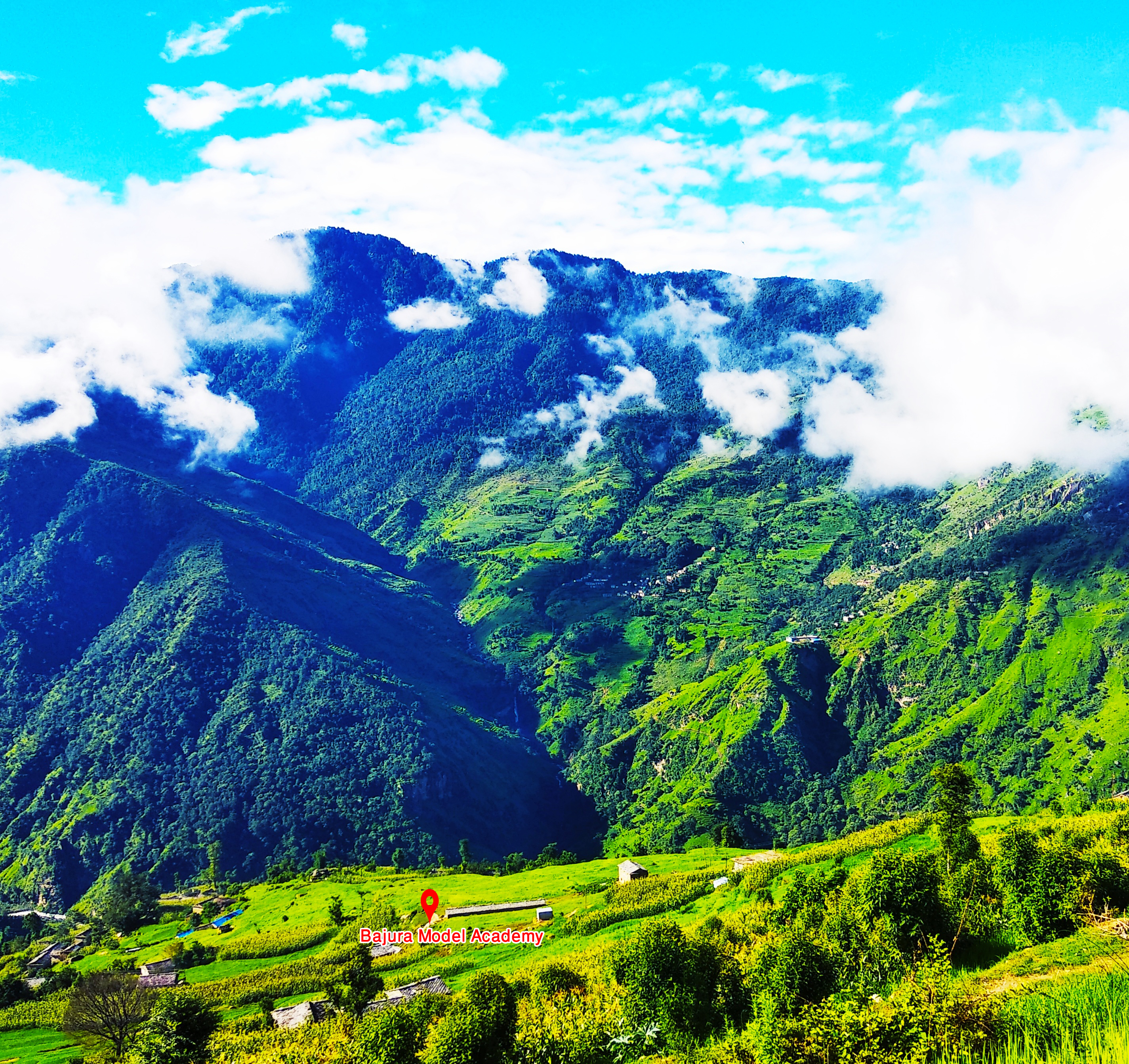 Aerial view of Bajura Model Acacdemy